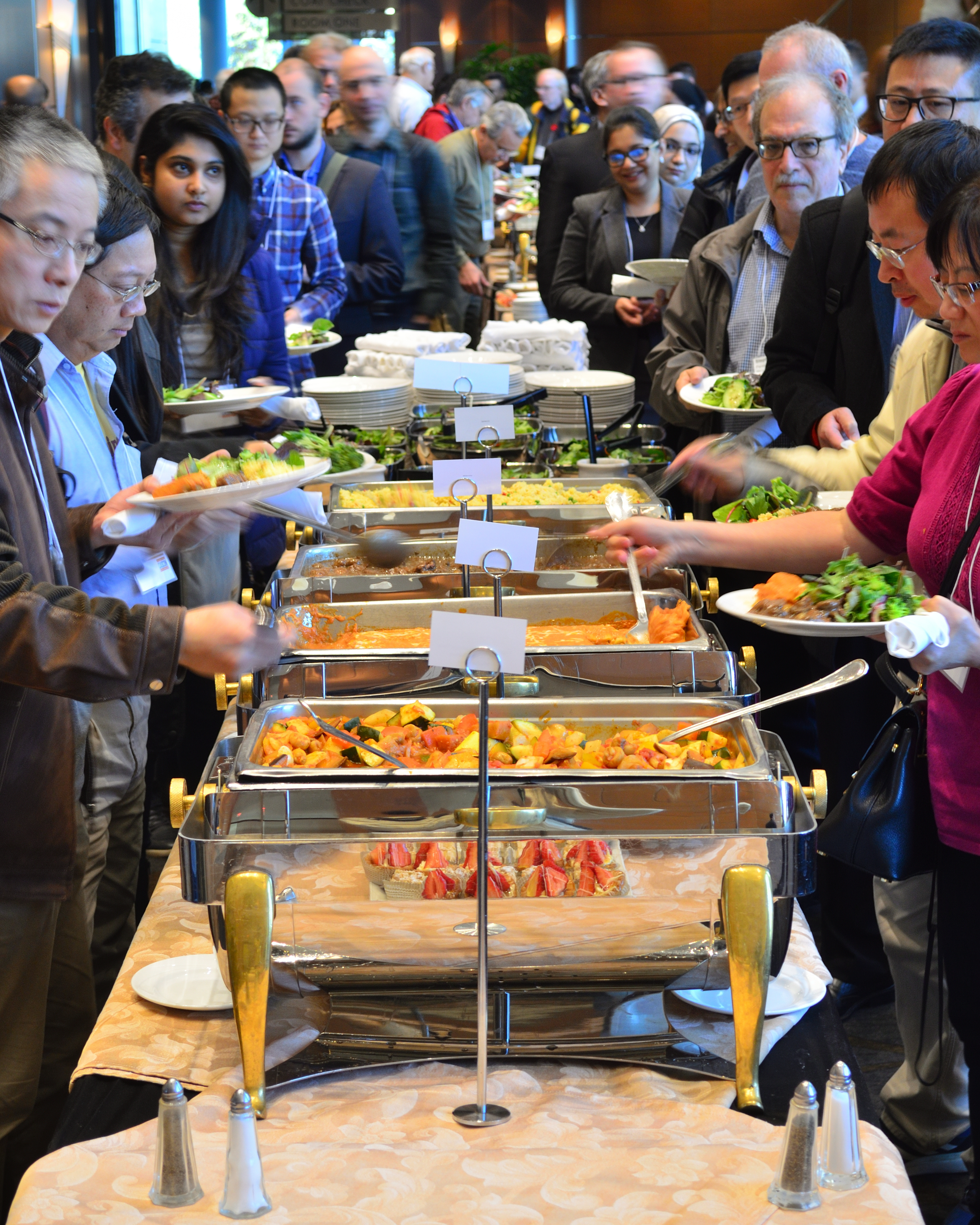 Conference lunch buffet.